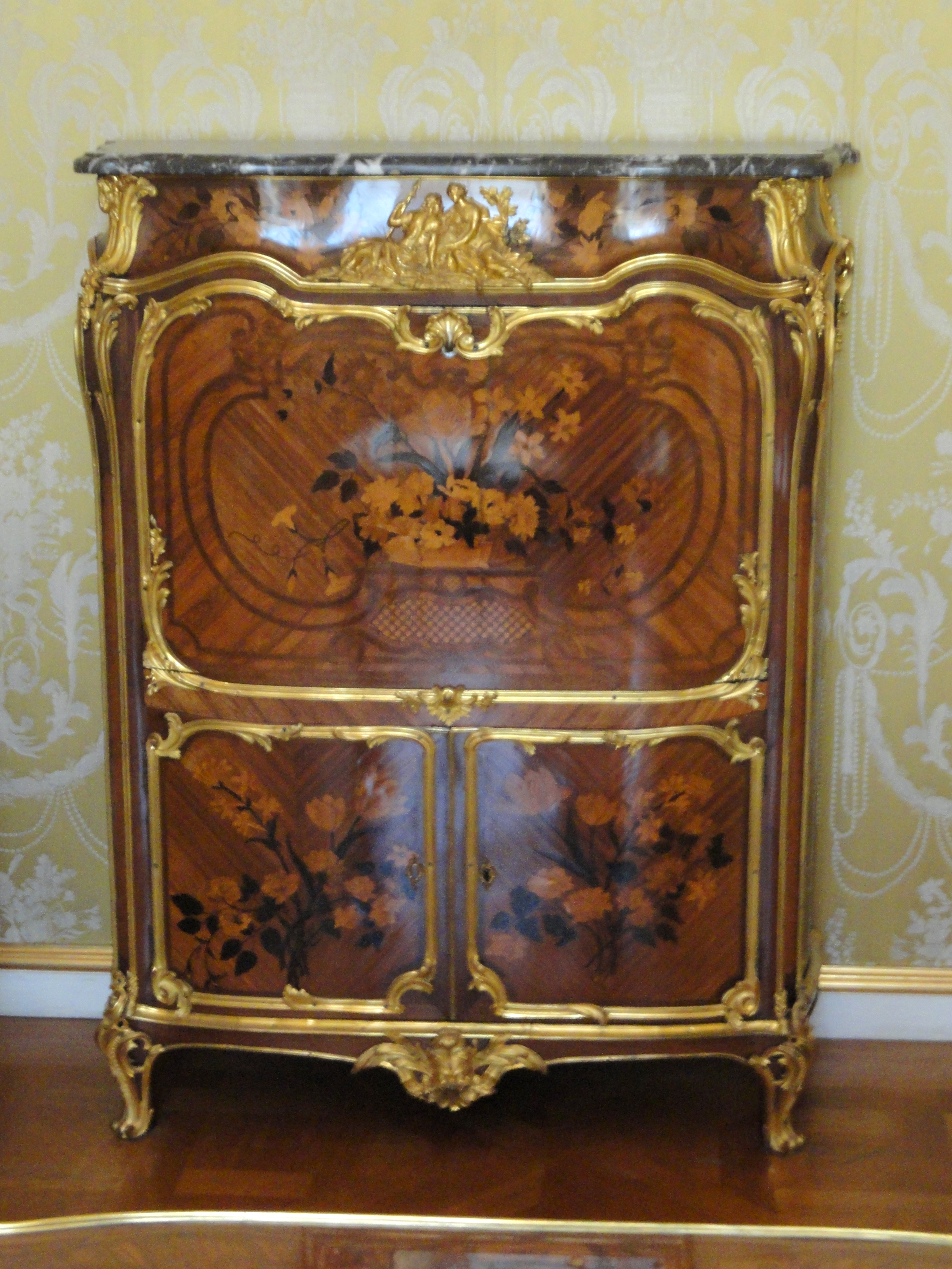 Secretaire by Jean-François Oeben, 1754-1756. Furniture exhibited in the Münchner Residenz, Munich, Germany.